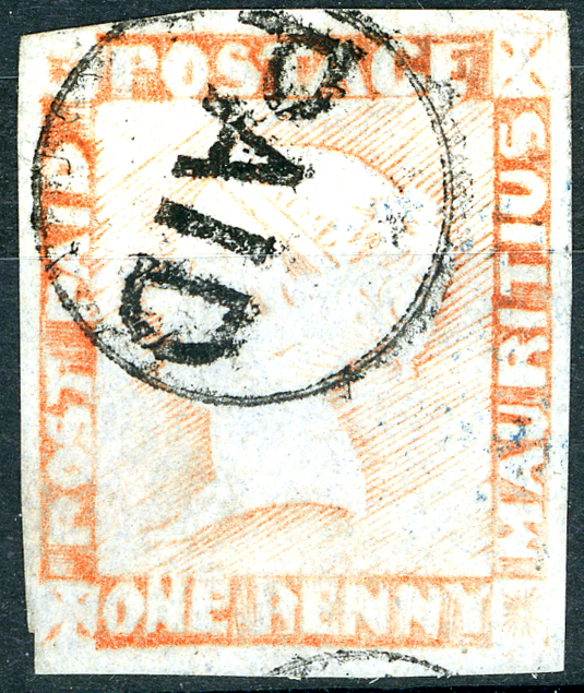 1 penny red, Post Paid Mauritius, latest impression. PAID cancel. SG N°23.